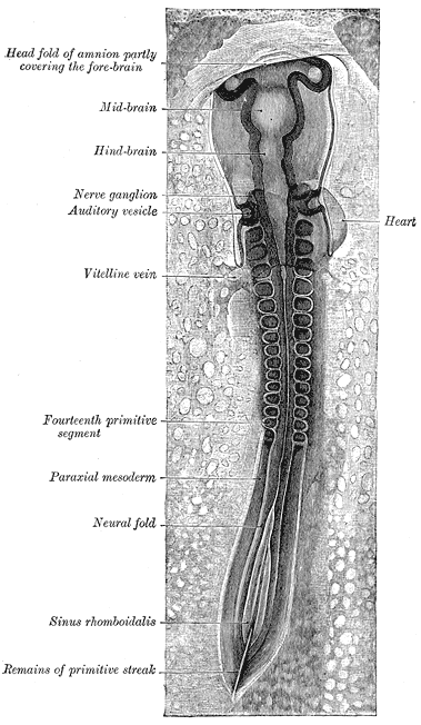 Chick embryo of thirty-three hoursâ€™ incubation, viewed from the dorsal aspect. X 30. (From Duvalâ€™s Atlas dâ€™Embryologie.)